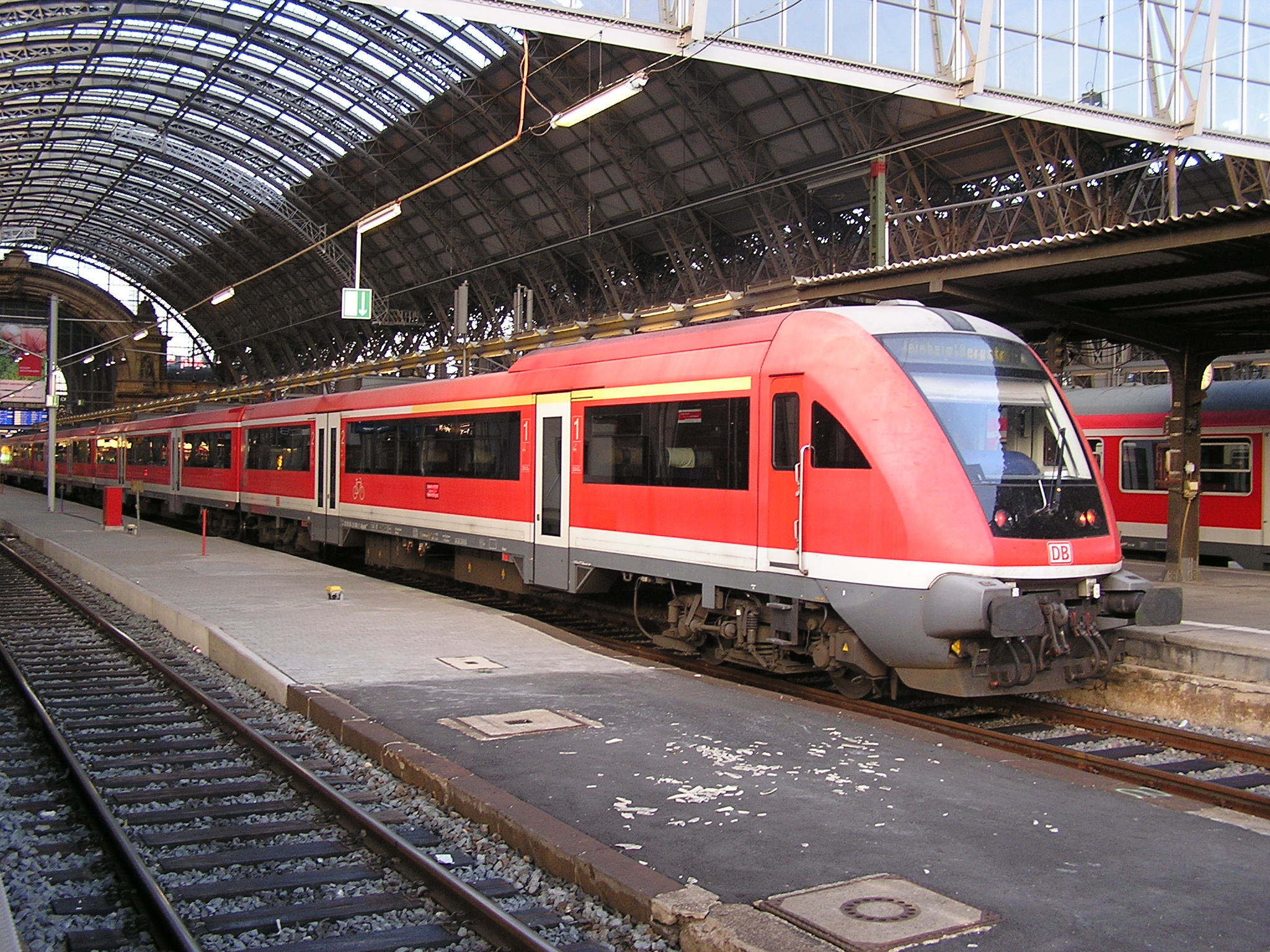 “Modus” rail cars in Frankfurt main station